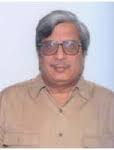 Dr. Parmod Kumar ,Chairman Punjab Governance Reforms Commission Government of Punjab,India